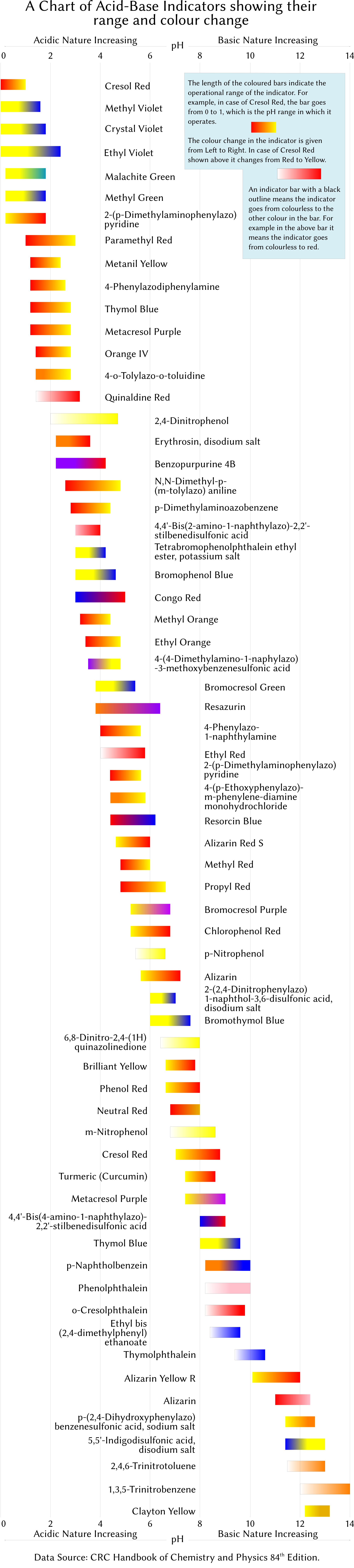 This visualization presents the different acid base indicators in terms of the range of their operation and colour changes. The data is from CRC Handbook of Chemistry and Physics. The basic graph was plotted with Libre Office Calc and some changes (colours) were made in Inkscape.